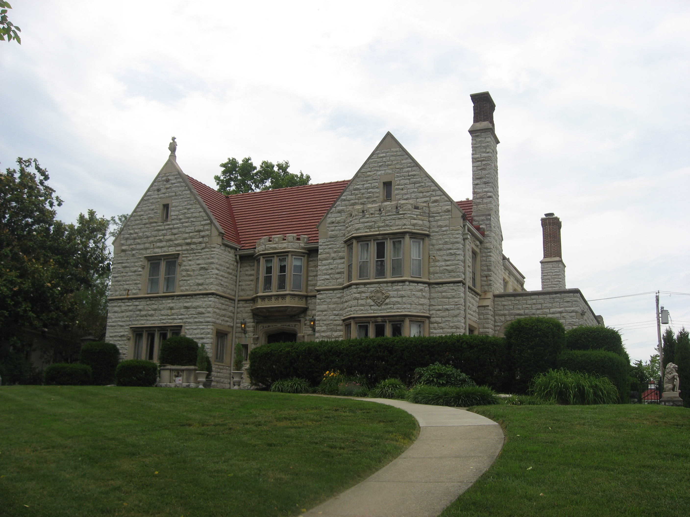 Front of the Stephen A. Gerrard Mansion, located at 748 Betula Avenue in Cincinnati, Ohio, United States. Built in 1915, it is listed on the National Register of Historic Places.